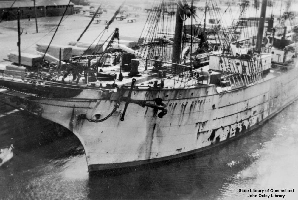 Archibald Russell in Melbourne, Victoria.